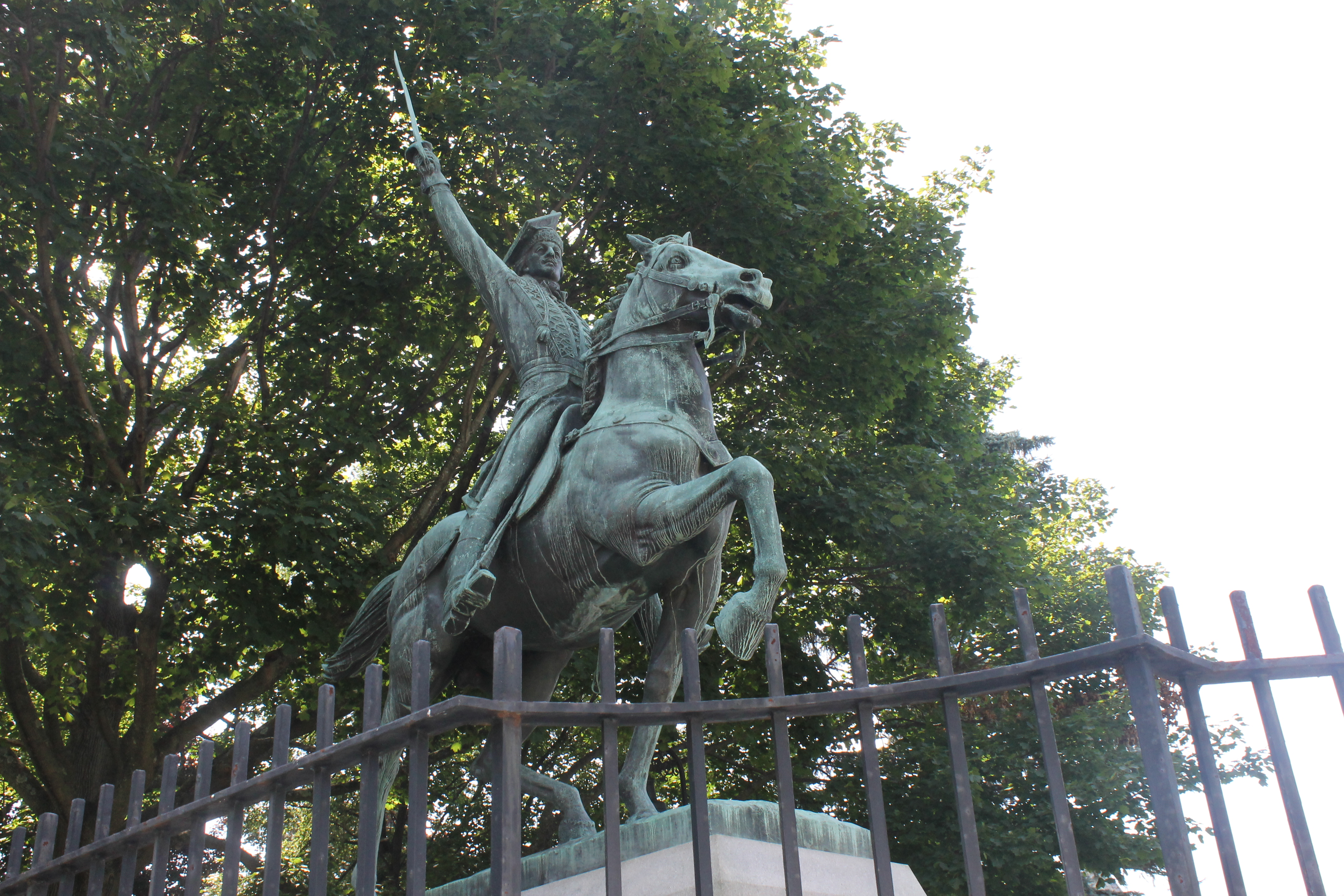 I took photo with Canon camera of Count Pulaski statue at Pulaski Park in Manchester, NH.